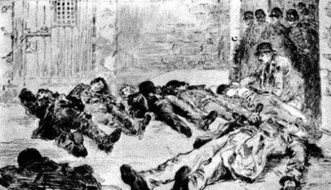 Bodies of some of the lynched Italian Americans being arranged for public viewing. Illustrated American, April 4, 1891.